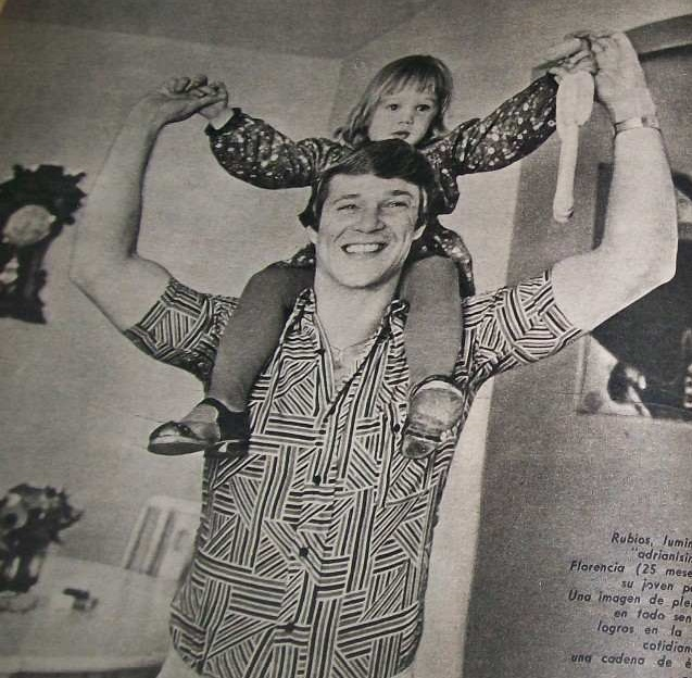 Adrián Ghio- actor argentino junto a su hija.